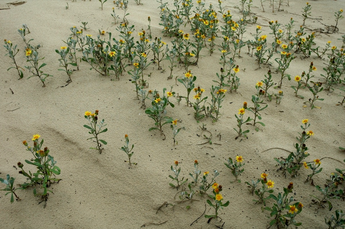 Senecio crassiflorus on the dunes at Rio Grande do Sul.